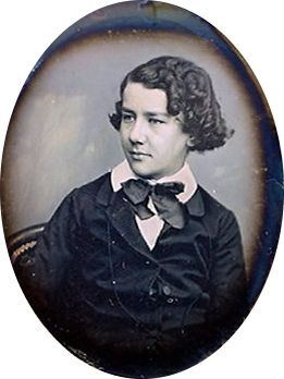 Daguerreotype of James McNeil Whistler